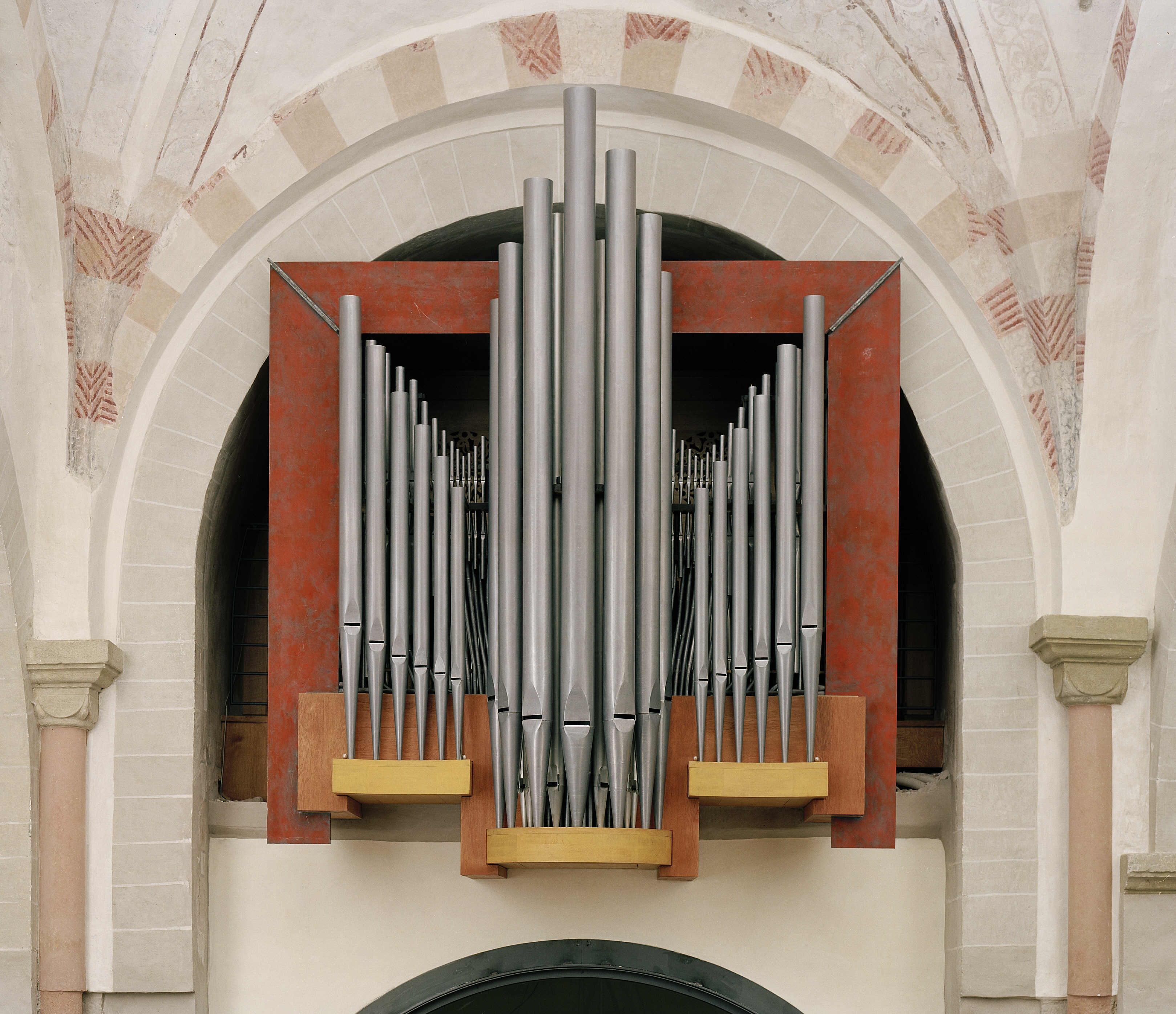 Organ in Stiepel